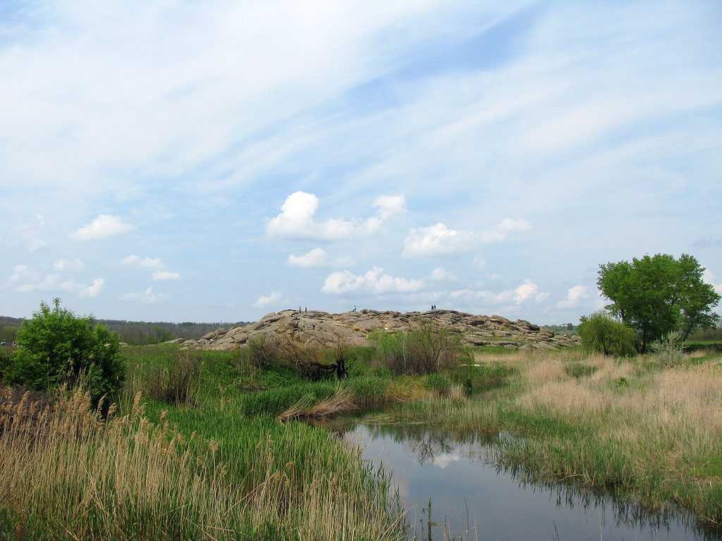 Kamyana Mohyla and the Molochna river